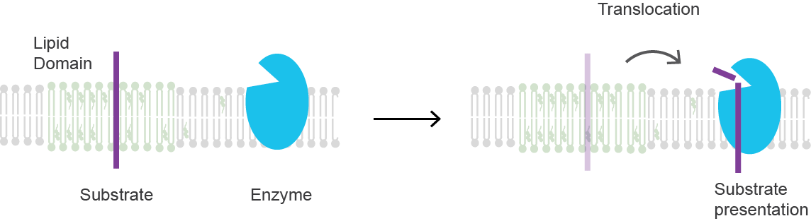 (left) A substrate is sequestered into a cholesterol-dependent lipid domain apart from its hydrolytic enzyme. (right) presentation of the substrate to the enzyme in the disordered region of the membrane.